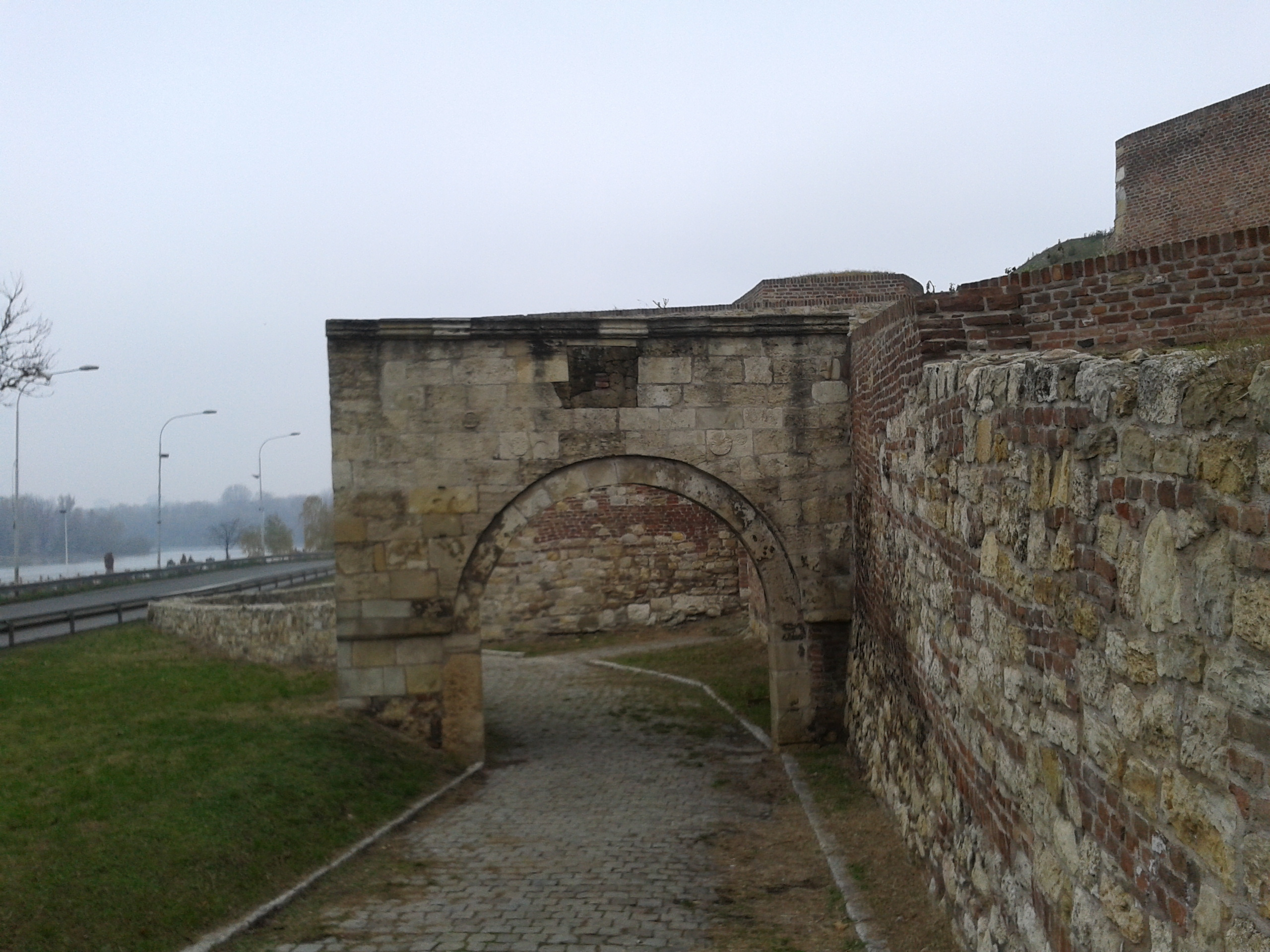 Outer Sava Gate of Belgrade Fortress.